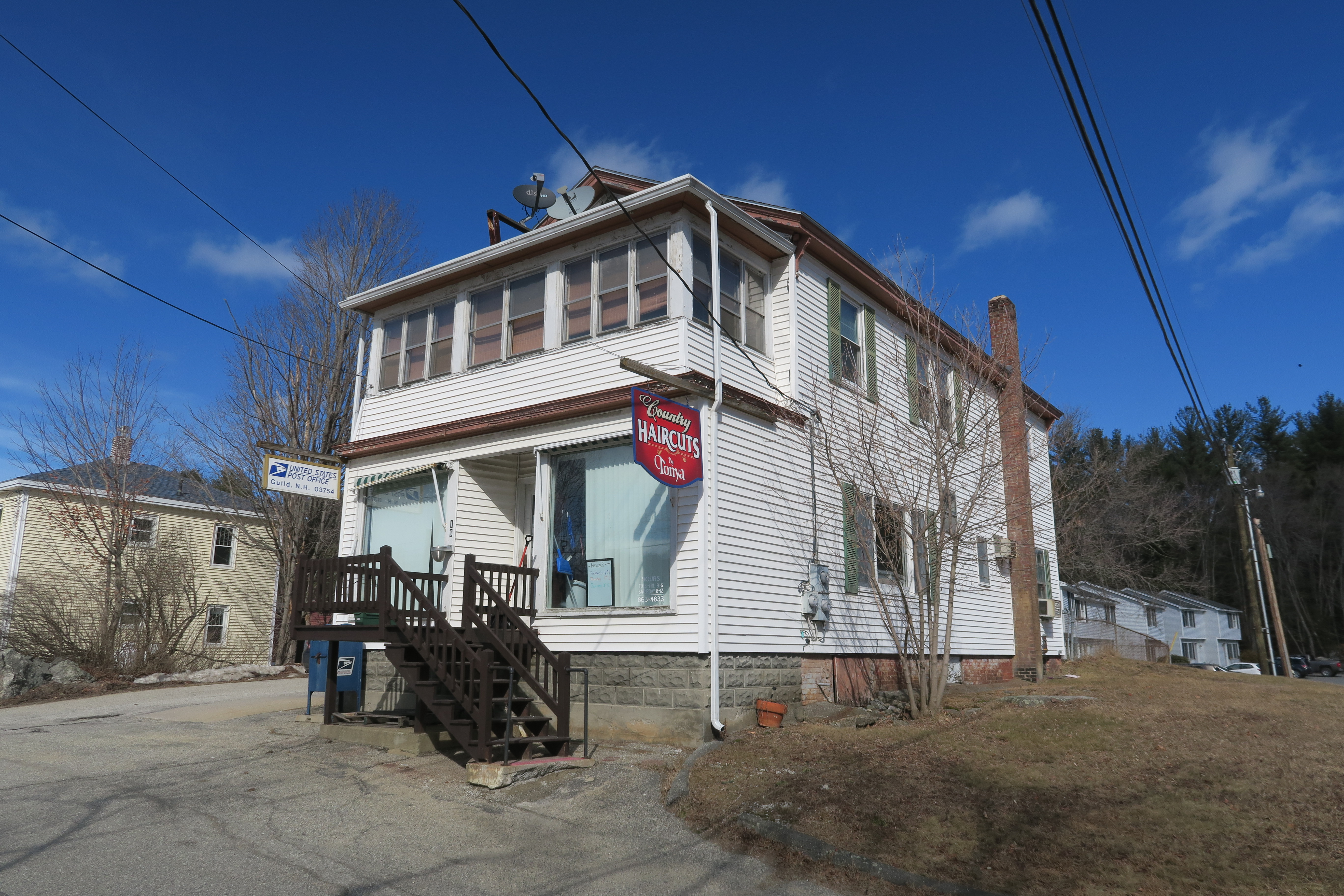 Post Office, Guild New Hampshire